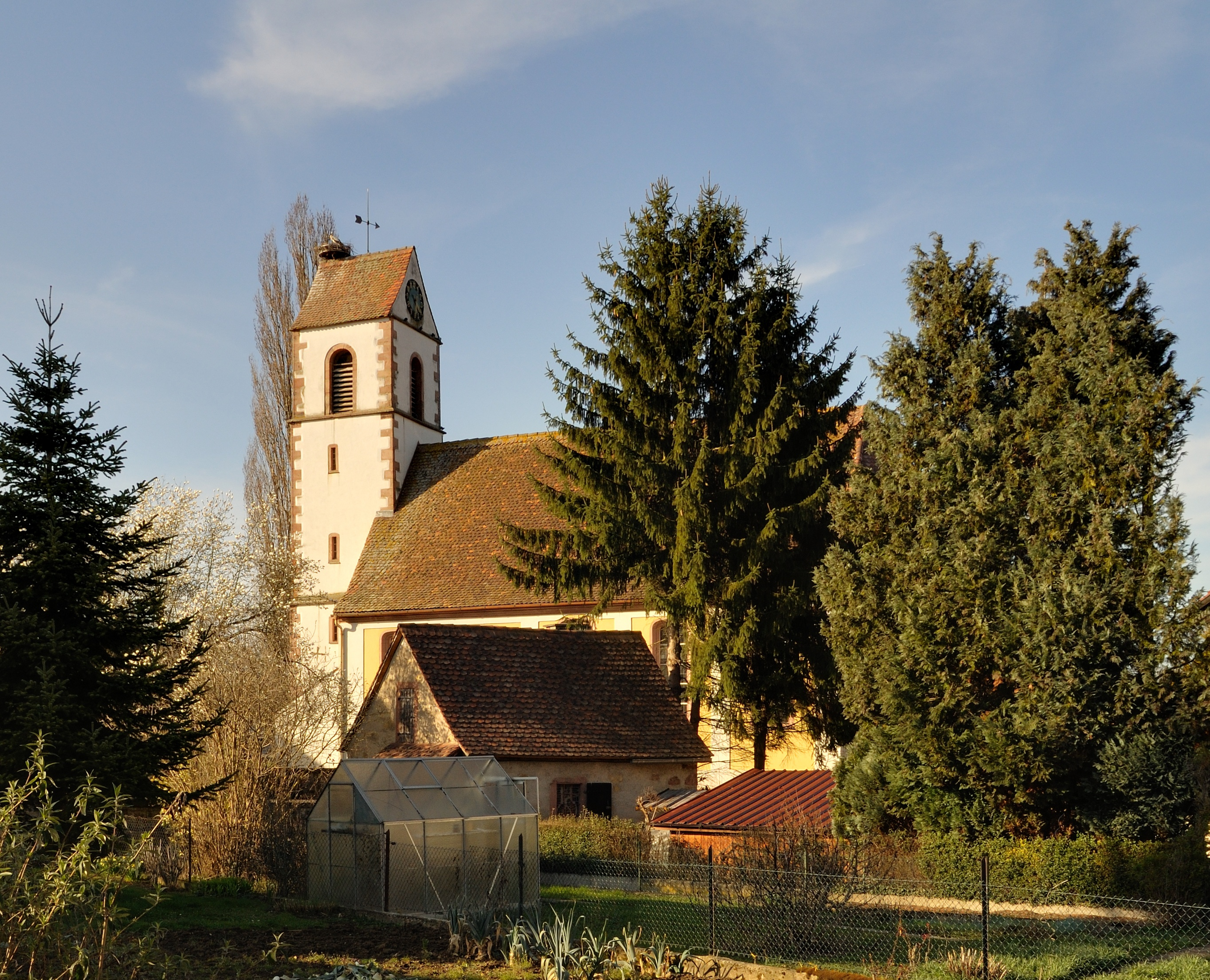 Schallbach: Protestant Church